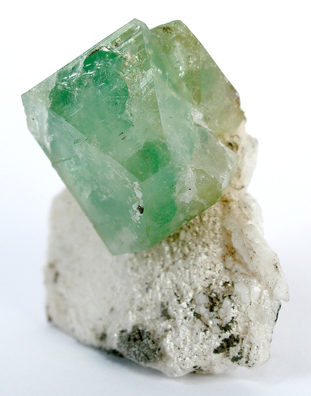 Albite, Herderite Locality: Chhappu, Braldu Valley, Skardu District, Baltistan, Northern Areas, Pakistan (Locality at ) Size: miniature, 3.6 x 3.5 x 2.3 cm Hydroxyl-Herderite on Albite Rare green hydroxylherderite from a small find, or series of small finds, that has been out now for about 7 years. Very glassy, translucent, 3-dimensional crystal of approximately 2 cm perched on crystallized albite. Ex. Laura and Stevia Thompson Collection.